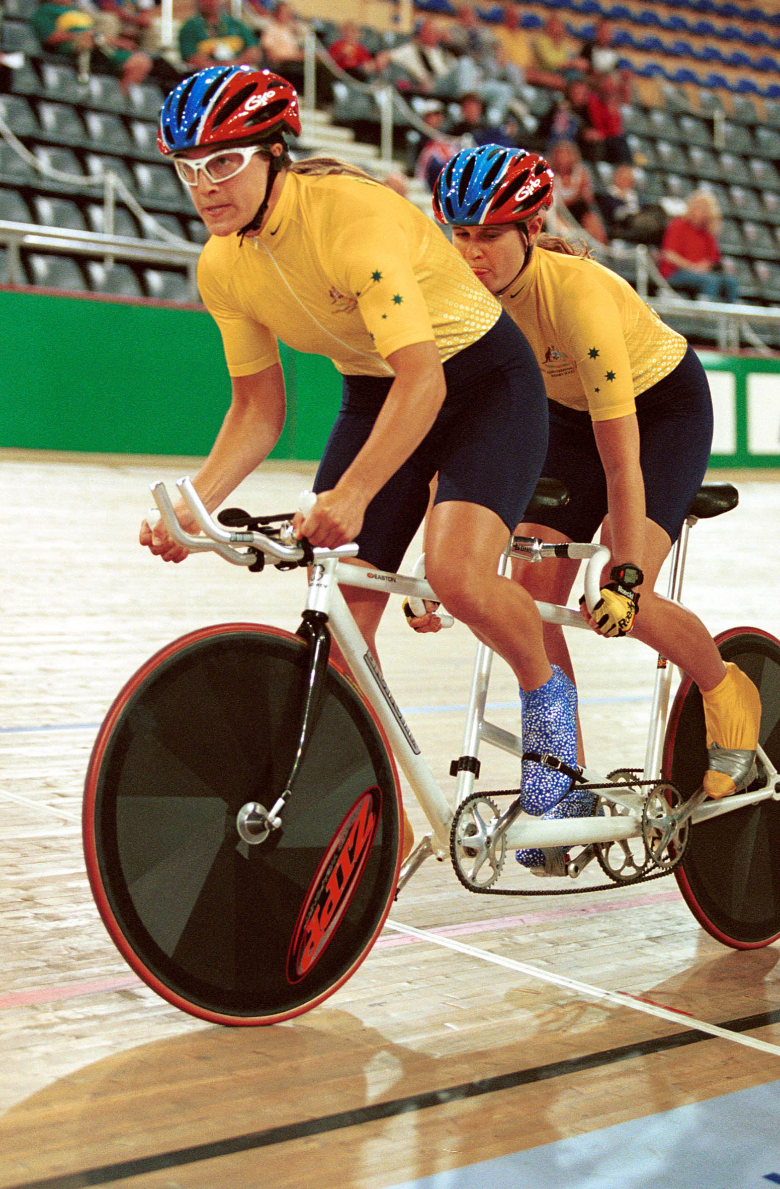 Action shot of Australian track cyclists Tania Modra (pilot) and Sarnya Parker during the 2000 Sydney Paralympic Games Women's Tandem 1k Time Trial. They won gold in the event.